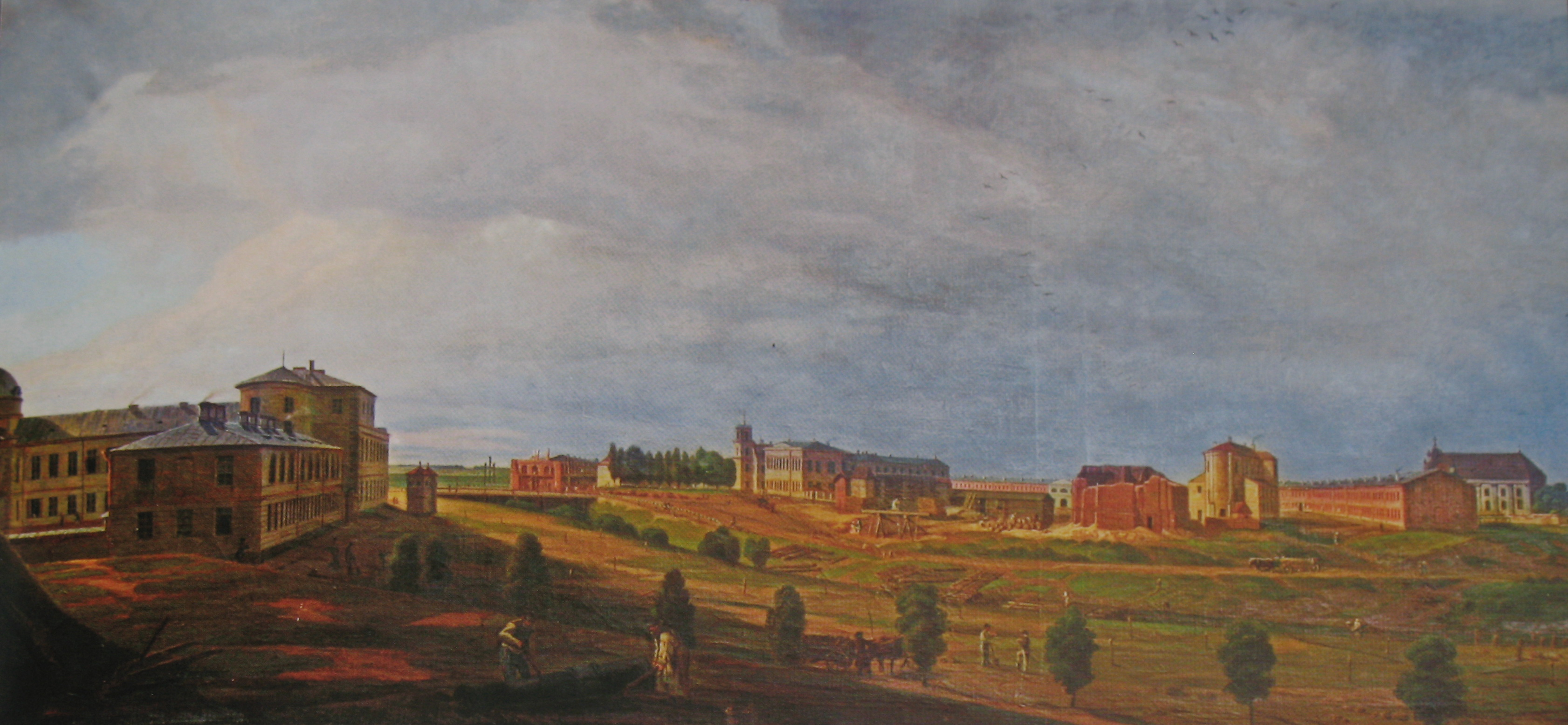 View of Bieraście